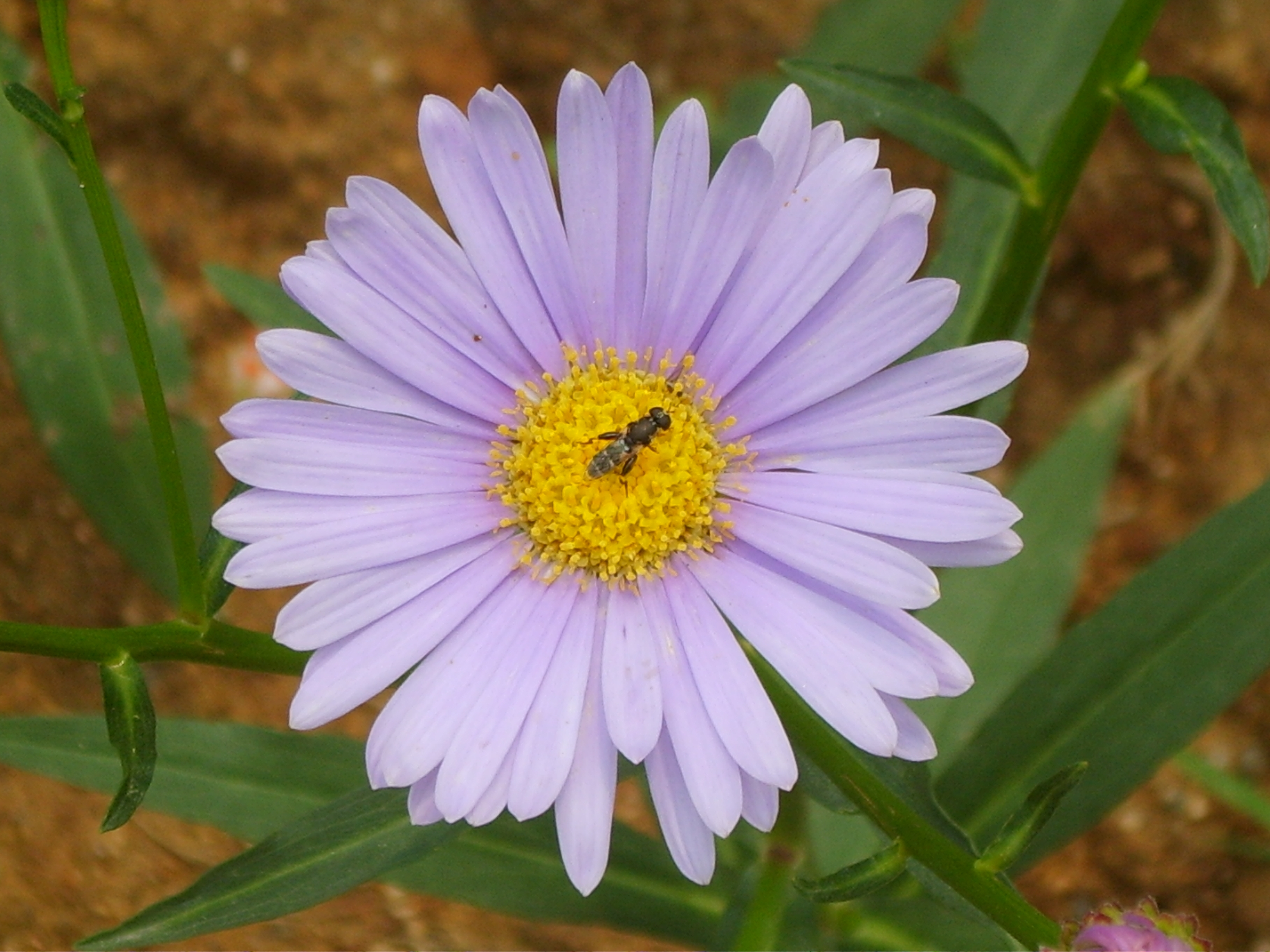 Aster koraiensis